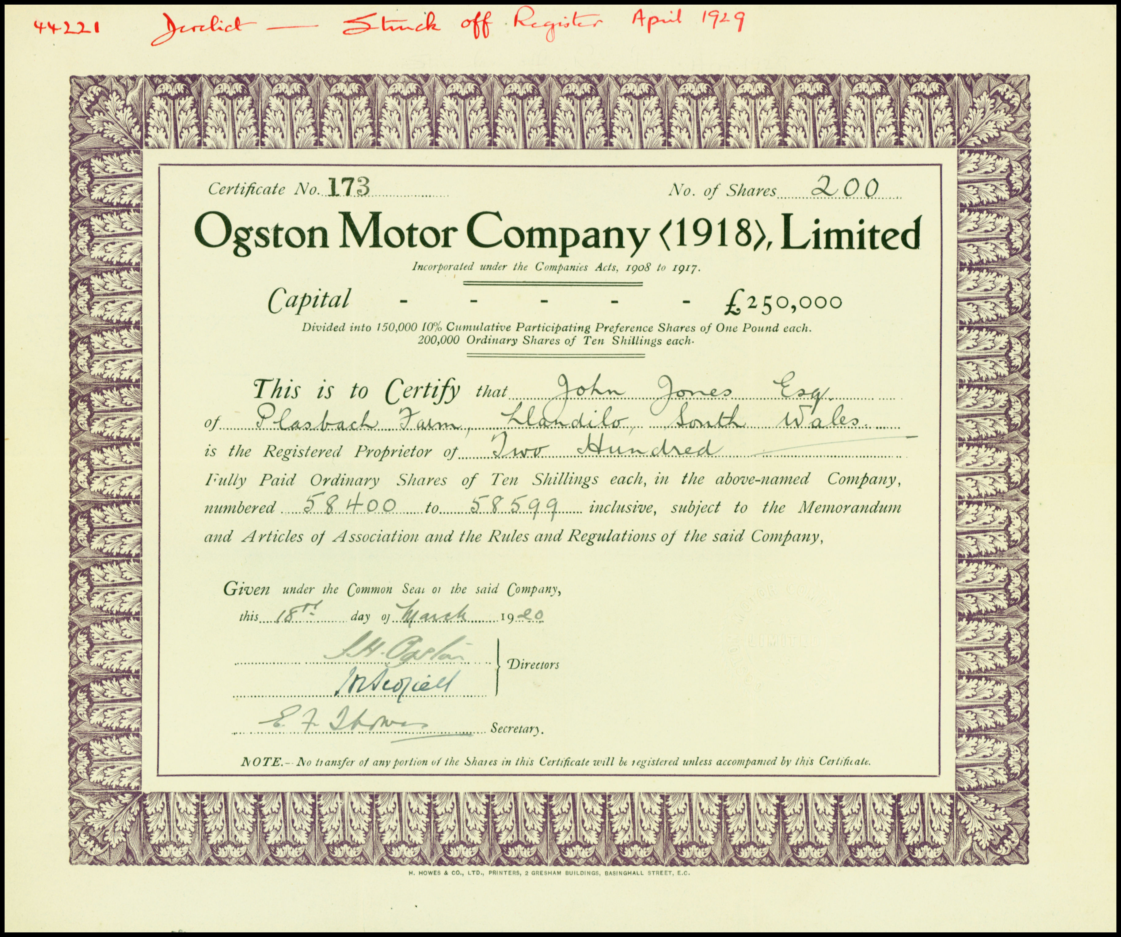 Share of the Ogston Motor Company (1918) Ltd., issued 18. March 1920